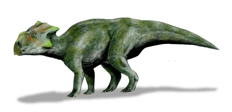 Bagaceratops rozhdestvenskyi, a ceratopsian from the Late Cretaceous of Mongolia, pencil drawing, digital coloring